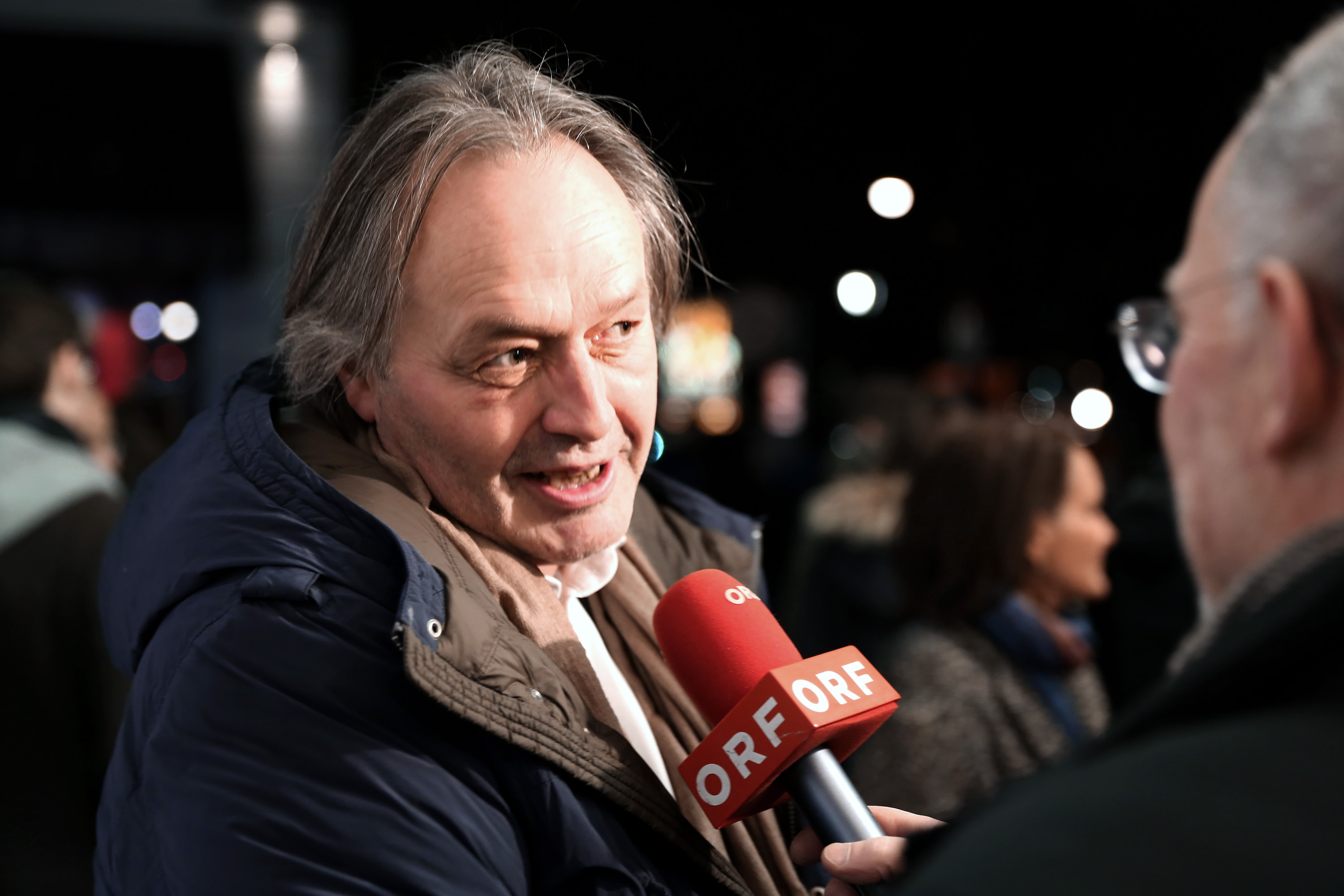 Helmut Grasser at the premiere of the movie Gruber geht at Gartenbaukino in Vienna, Austria.